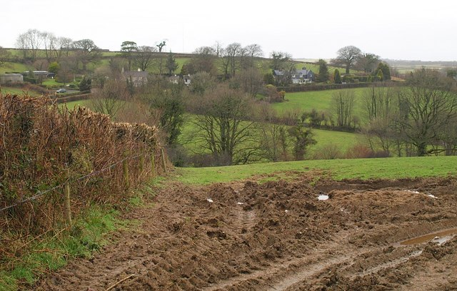 Towards Welltown Looking across a side valley of the River Seaton, from the lane east of Trembraze. Welltown is a tiny hamlet of about four houses.